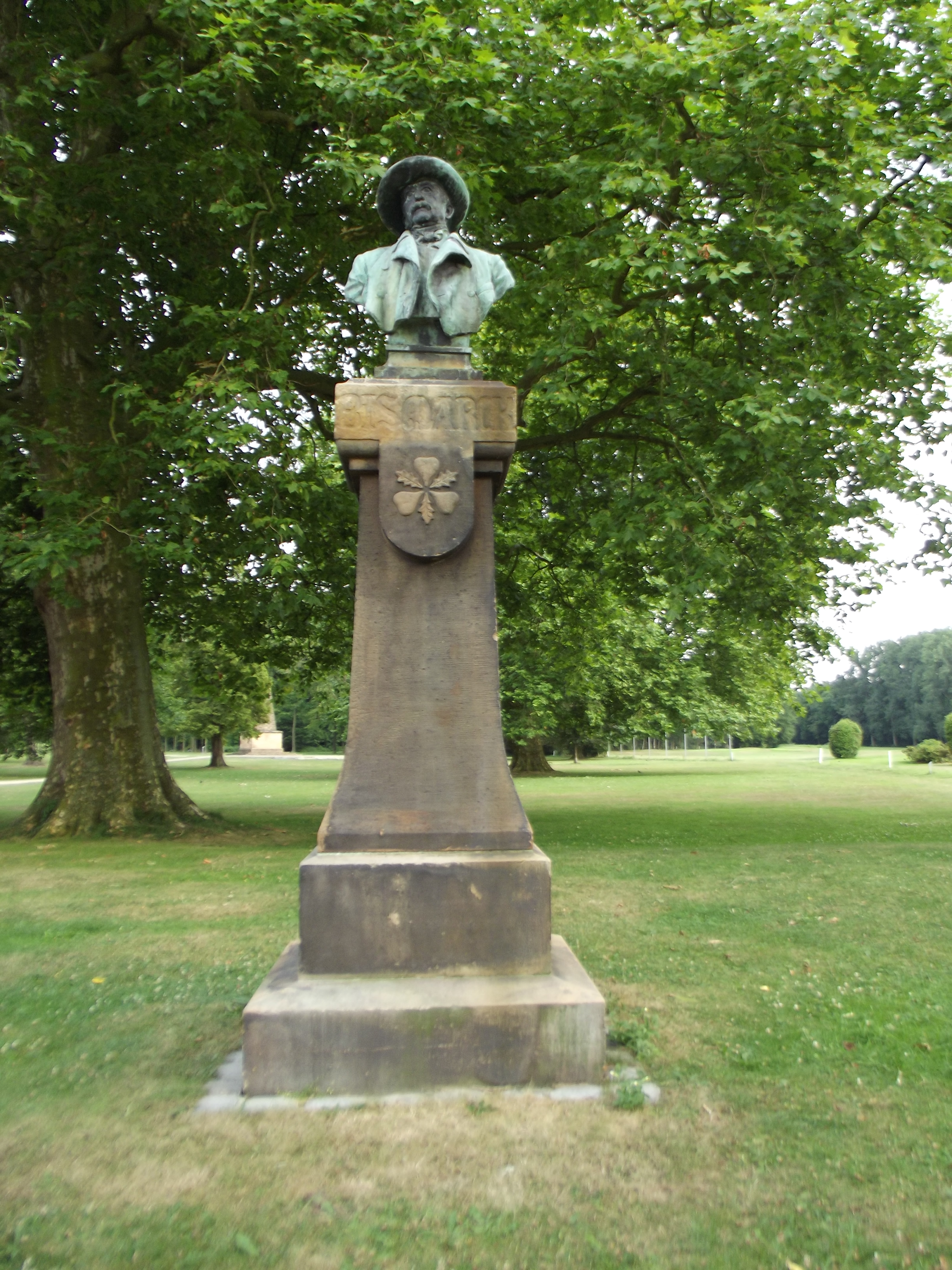 Between the castle moat and the recreation area "Bagno" there is a Memorial for Bismarck This image shows a heritage building in Germany, located in the North Rhine-Westphalian city Steinfurt (no. 165).